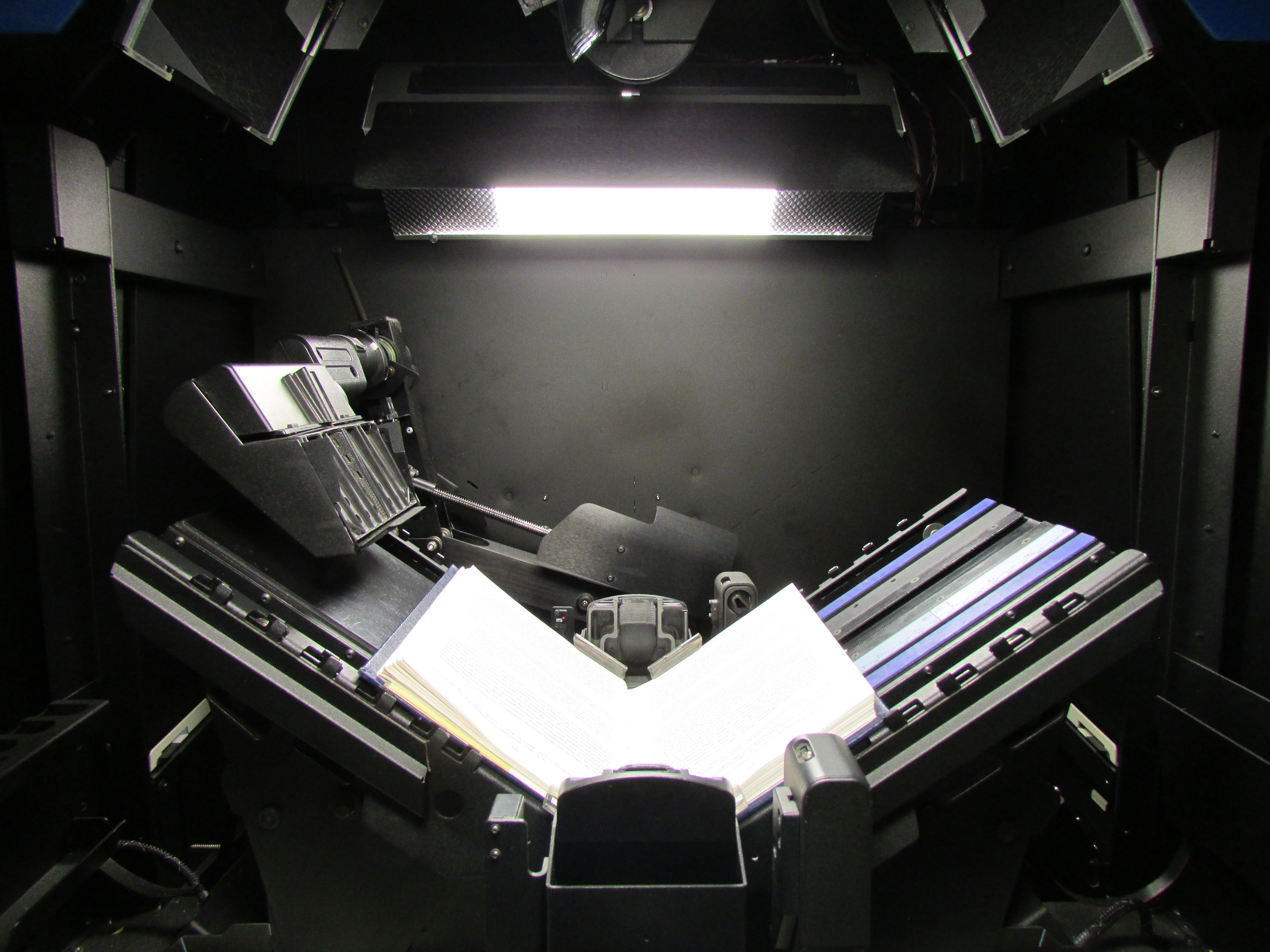 Digitalization Laboratory of the National Library of Chile.